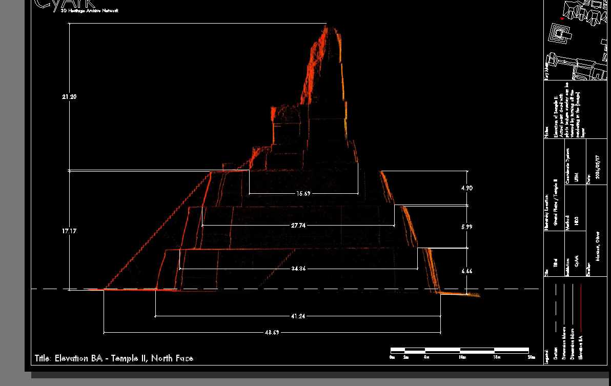 Laser scan elevation of Temple II, north face. The eighth-century Tikal king Jasaw Chan K'awiil I commissioned Temples I and II during his reign. Temple II is dedicated to his wife, Lady Twelve Macaw (died 704 A.D.), and she is interred within it. In contrast to [Egyptian pyramids], to which they are often erroneously compared, Maya "Step pyramids", as with Mesoamerican pyramids in general, served numerous functions besides mortuary ones, and were constructed not from large, solid stone blocks but from smaller, cut stone blocks on top of a rubble-fill core. Additionally, many Maya Temples such as Temple II are not mathematically pyramidal - the base angles vary, as one side was built at a less severe slope to allow for a usable staircase. Such "pyramids" are thought to emulate the shape of mountains and volcanoes, a common pattern found across ancient Mesoamerica.